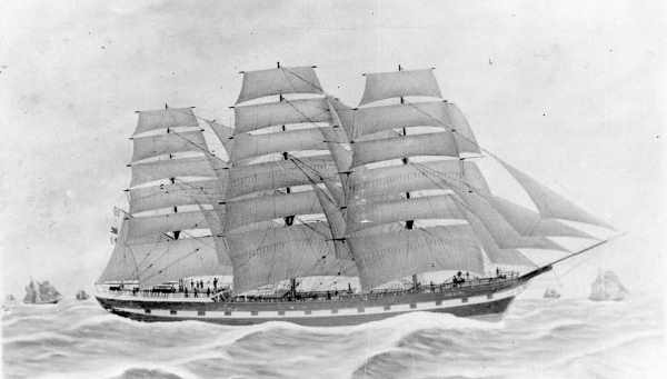 Creator unknown. Black and white image of Loch Maree running through a fleet of fruiters between the Azores & The Channel. Item held by State Library of Victoria as part of the Malcolm Brodie shipping collection. Image number: H99.220/733. Format: photograph: gelatin silver; 11.8 x 19.8 cm. postcard: gelatin silver: 9.0 x 13.7 cm. Photograph taken prior to 1915.